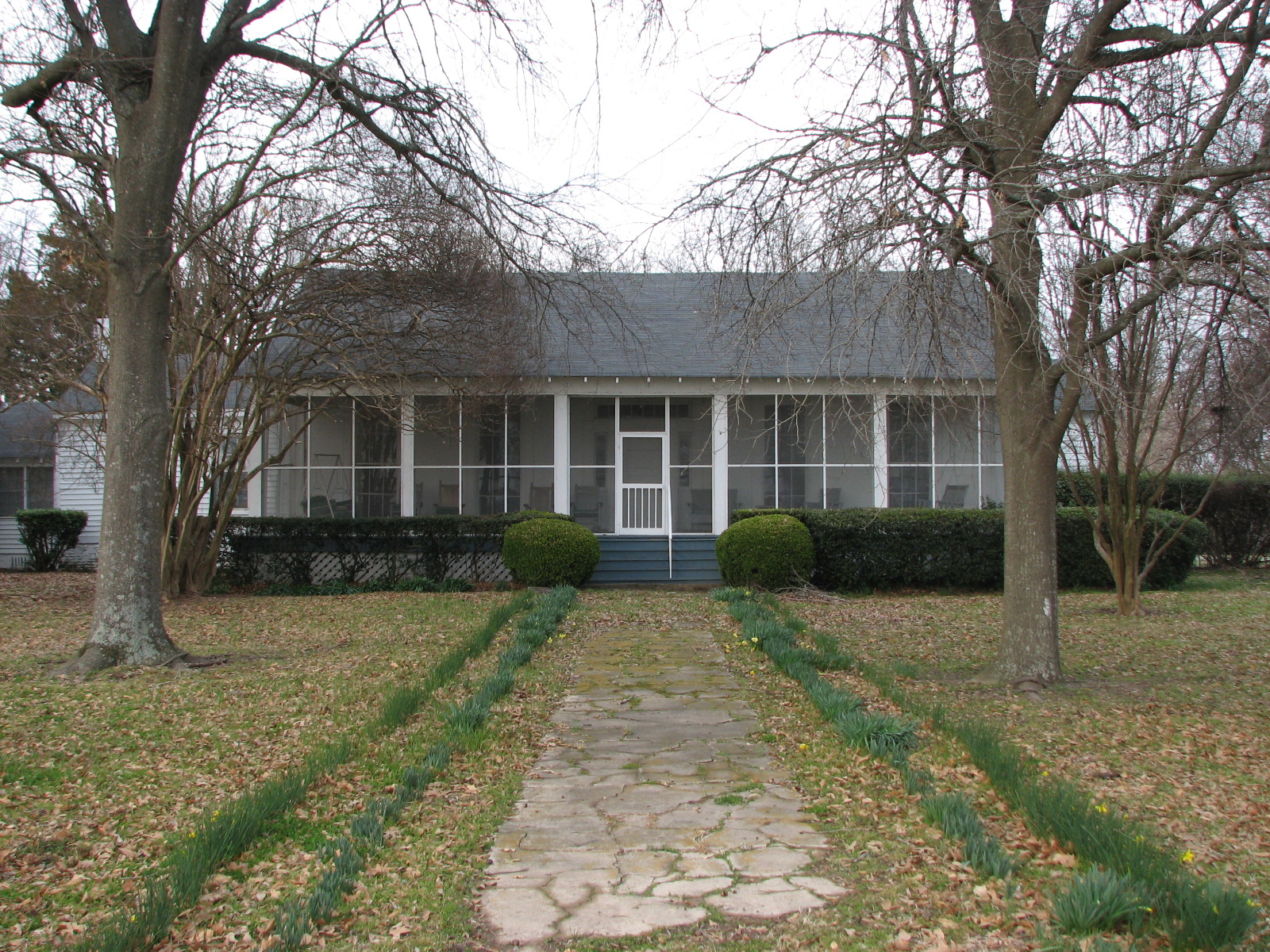 Junius R. Ward House, Old Mississippi Highway 1 Erwin